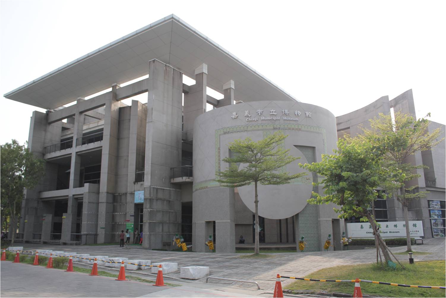 Chiayi Municipal Museum中文（台灣）: 嘉義市立博物館